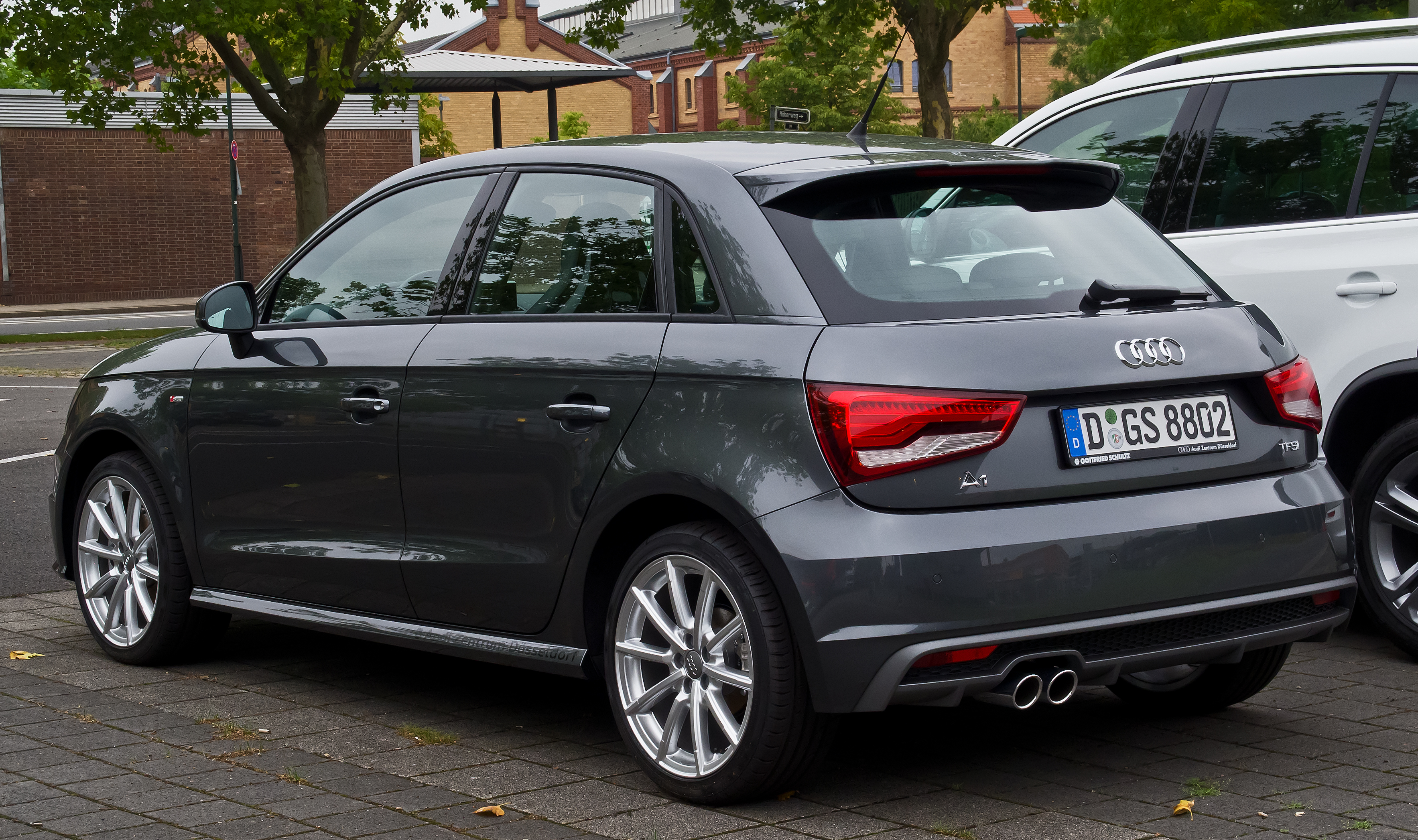 Audi A1 Sportback 1.4 TFSI S-line (Facelift)